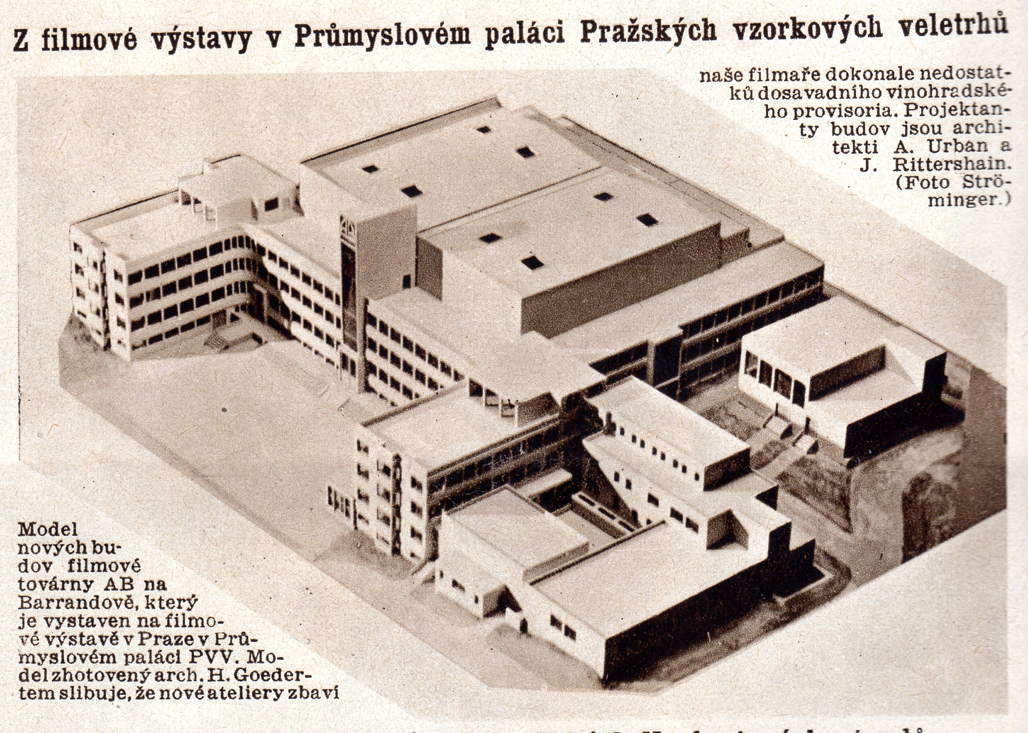 Barrandov studios model, 1932, authors Urban, Rittenshain. Ruff translation of the text: (title) From the film exposition in the Industry palace (Průmyslový palác building) of the Prague sample expo (main text) The model of the new buildings of the AB (former name) film factories(sic!) displayed in the film exposition in Prague in the Industry palace PVV (Pražské veletrhy a výstaviště – Prague expos and showgrounds). The model made by architect H. Goedert promises that the new studios will do away with the demerits of the temporary Vinohrady (quater of Prag) makeshift (studios) for our (Czech) filmmakers. The planners are architects A. Urban and J. Rittershain. (Photo credit: Ströminger.)